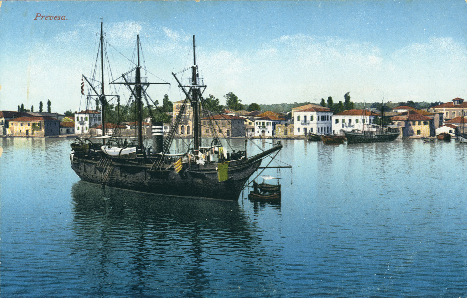 Preveza